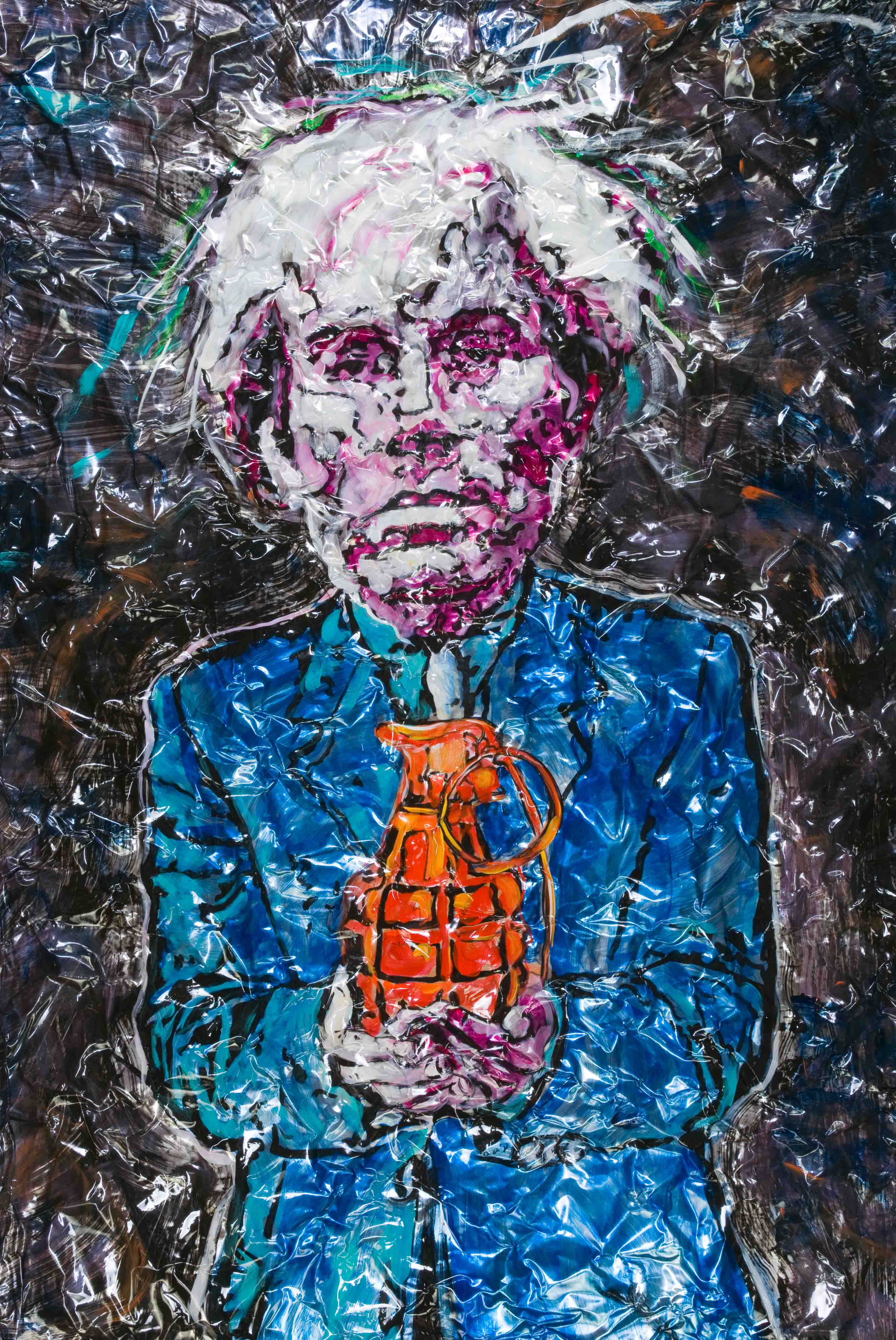 Parleau "Andy Boom" (2012) by Artist Simon Raab